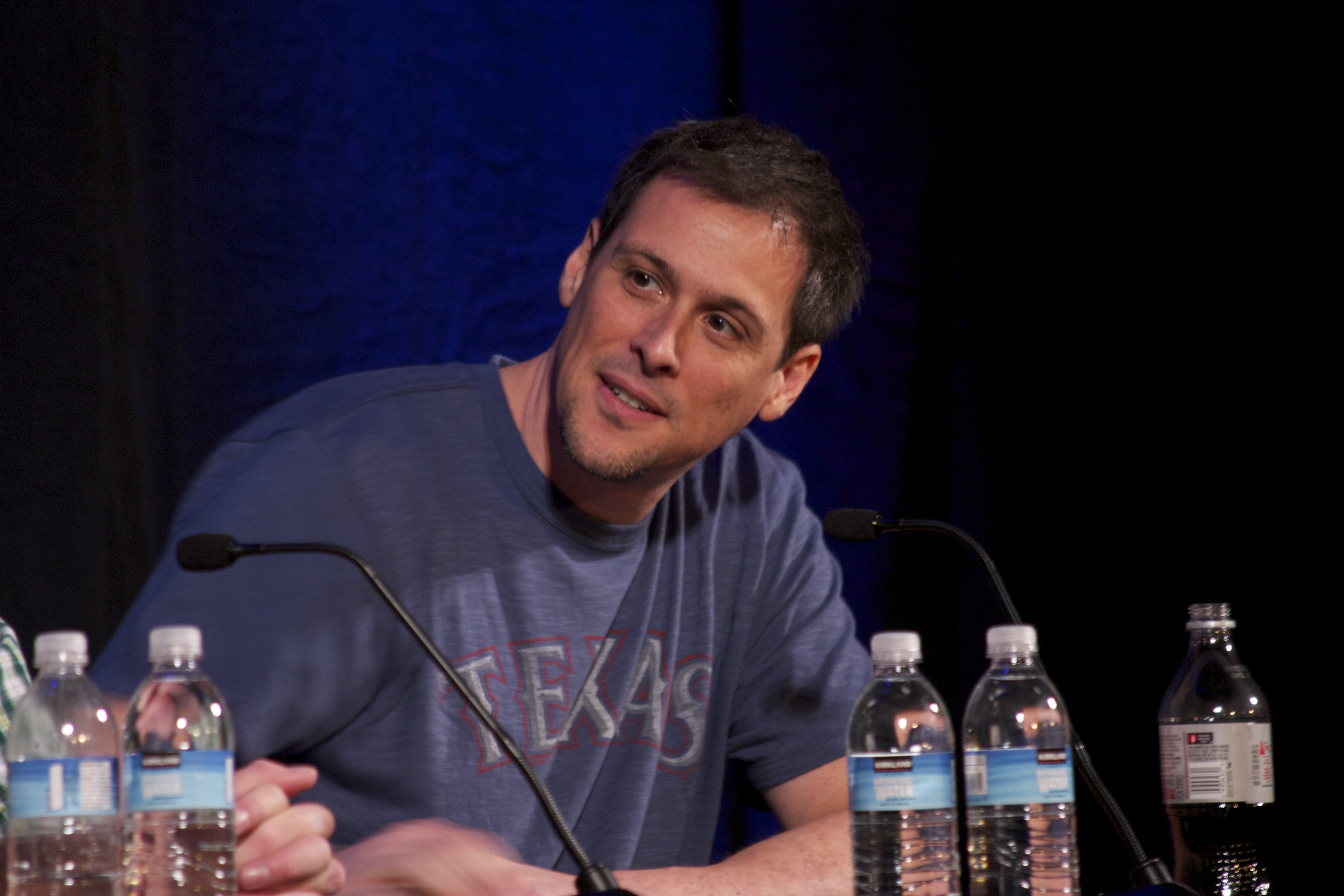 Joel Heyman at the Rooster Teeth panel at PAX Prime 2012